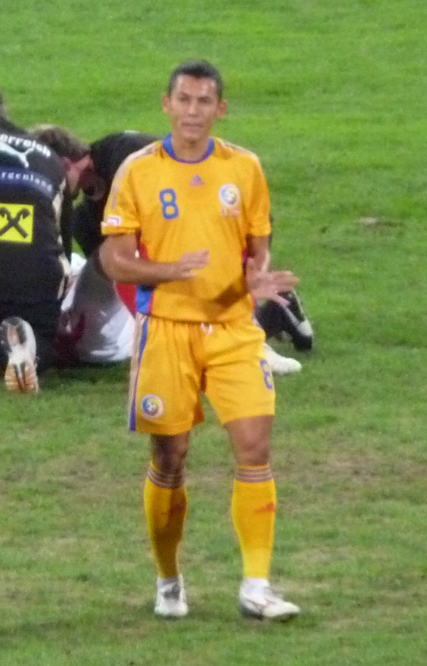 Paul Codrea playing for the national football team of Romania against Austria on the Steaua stadium in Bucharest